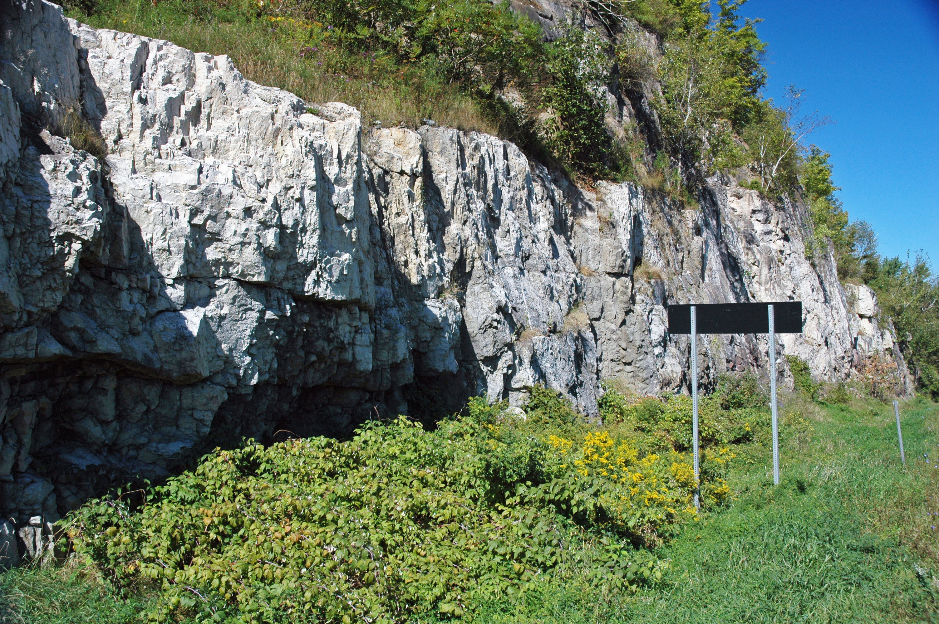 Dolostone in the Cambrian of Vermont, USA. Dolostone is sedimentary rock composed of the mineral dolomite - calcium magnesium carbonate, Ca,Mg(CO3)2. Dolomite and dolostone bubble in acid when powdered. Seen here is an outcrop of the Lower Cambrian Dunham Dolomite in Vermont. It represents shallow subtidal shelf to peritidal deposition. Stratigraphy: Dunham Dolomite, upper Lower Cambrian Locality: roadcut on the southern side of Route 2, just southeast of bridge over the Lamoille River, northwestern Chittenden County, northwestern Vermont, USA (44° 36' 02.54" North latitude, 73° 12' 11.33" West longitude)